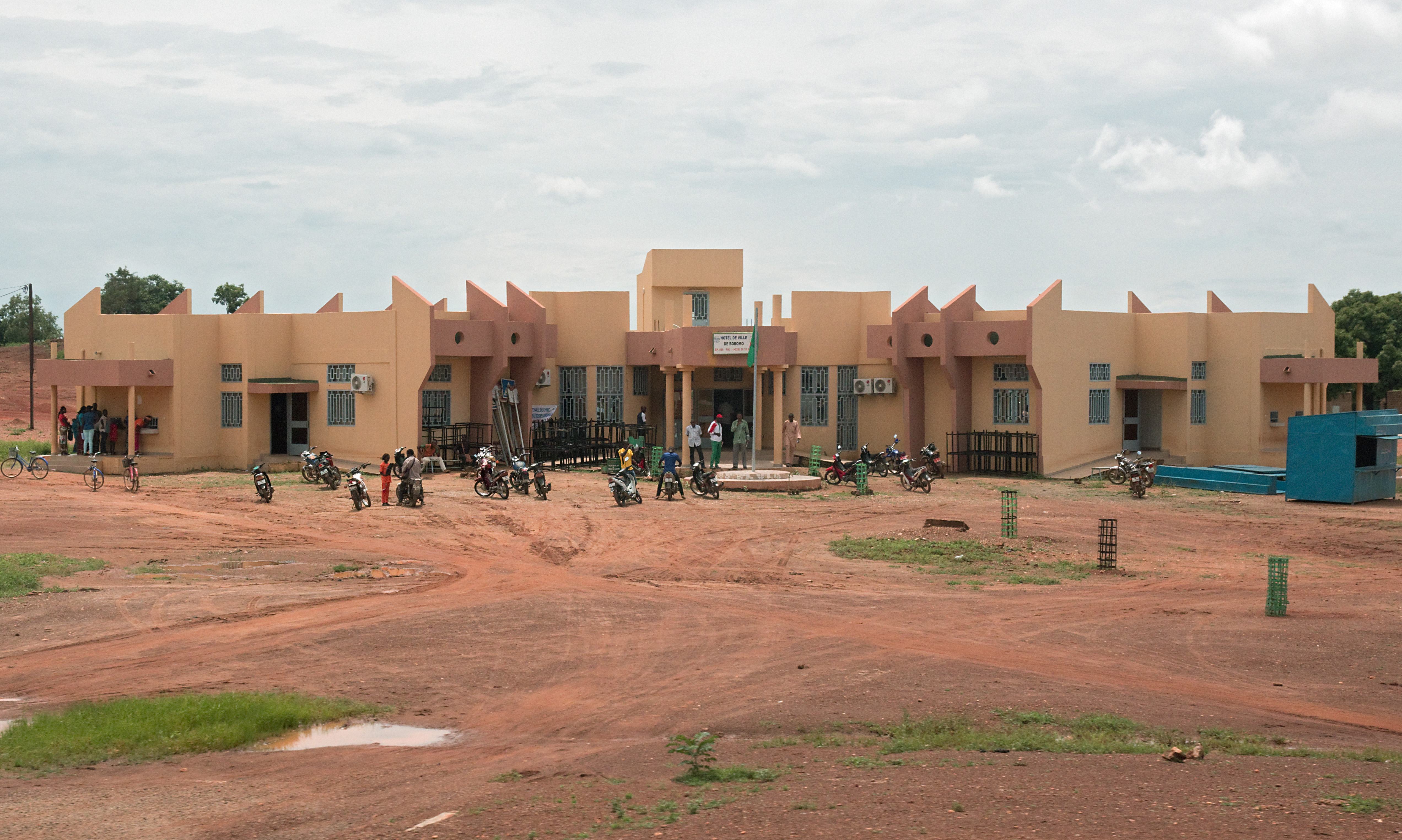 The municipal administration building (Hotel de Ville) of the urban municipality (commune urbaine) of Boromo, Burkina Faso (September 2018)